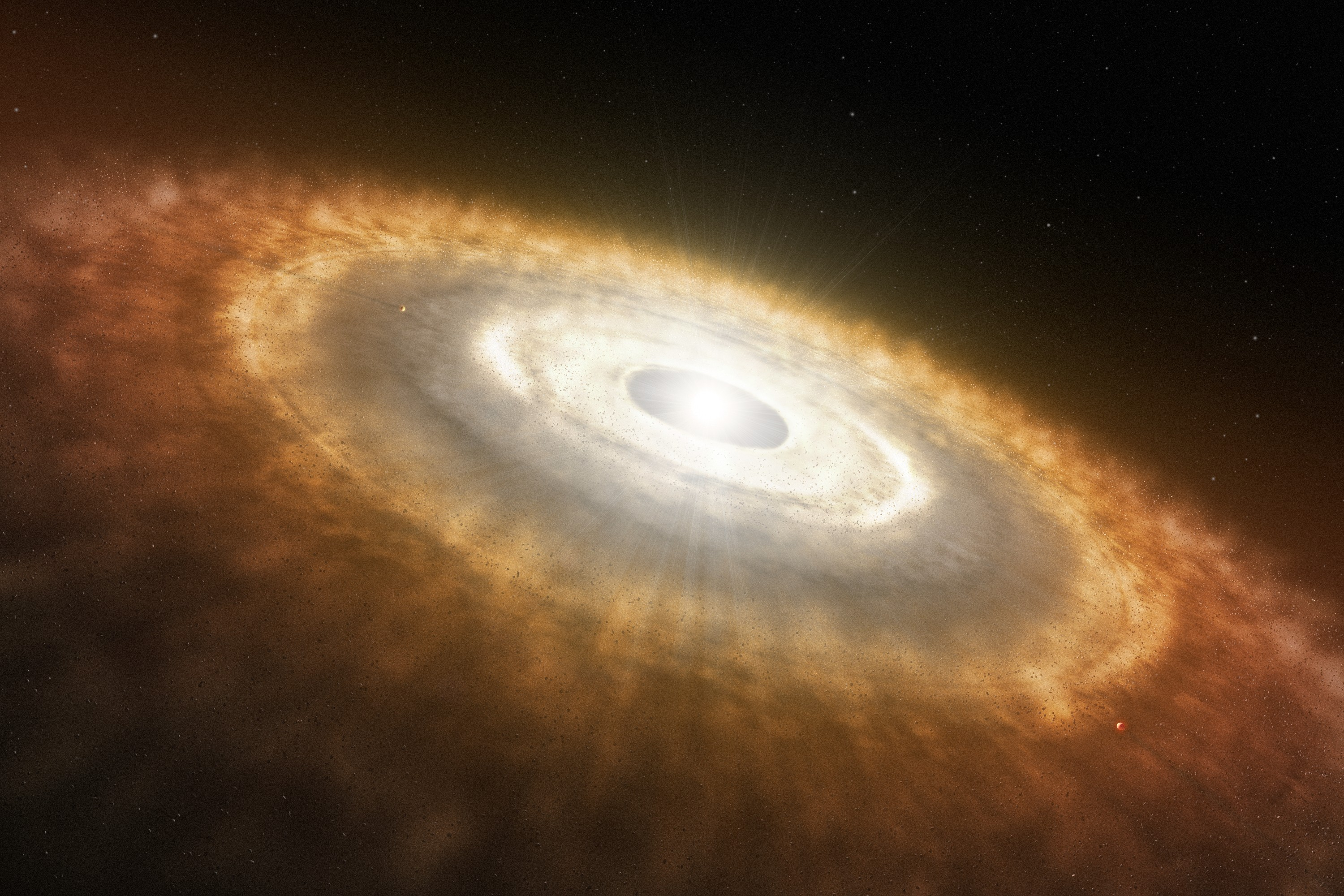 Artist’s impression of a baby star still surrounded by a protoplanetary disc in which planets are forming. Using ESO’s very successful HARPS spectrograph, a team of astronomers has found that Sun-like stars which host planets have destroyed their lithium much more efficiently than planet-free stars. This finding does not only shed light on the low levels of this chemical element in the Sun, solving a long-standing mystery, but also provides astronomers with a very efficient way to pick out the stars most likely to host planets. It is not clear what causes the lithium to be destroyed. The general idea is that the planets or the presence of the protoplanetary disc disturb the interior of the star, bringing the lithium deeper down into the star than usual, into regions where the temperature is so hot that it is destroyed.